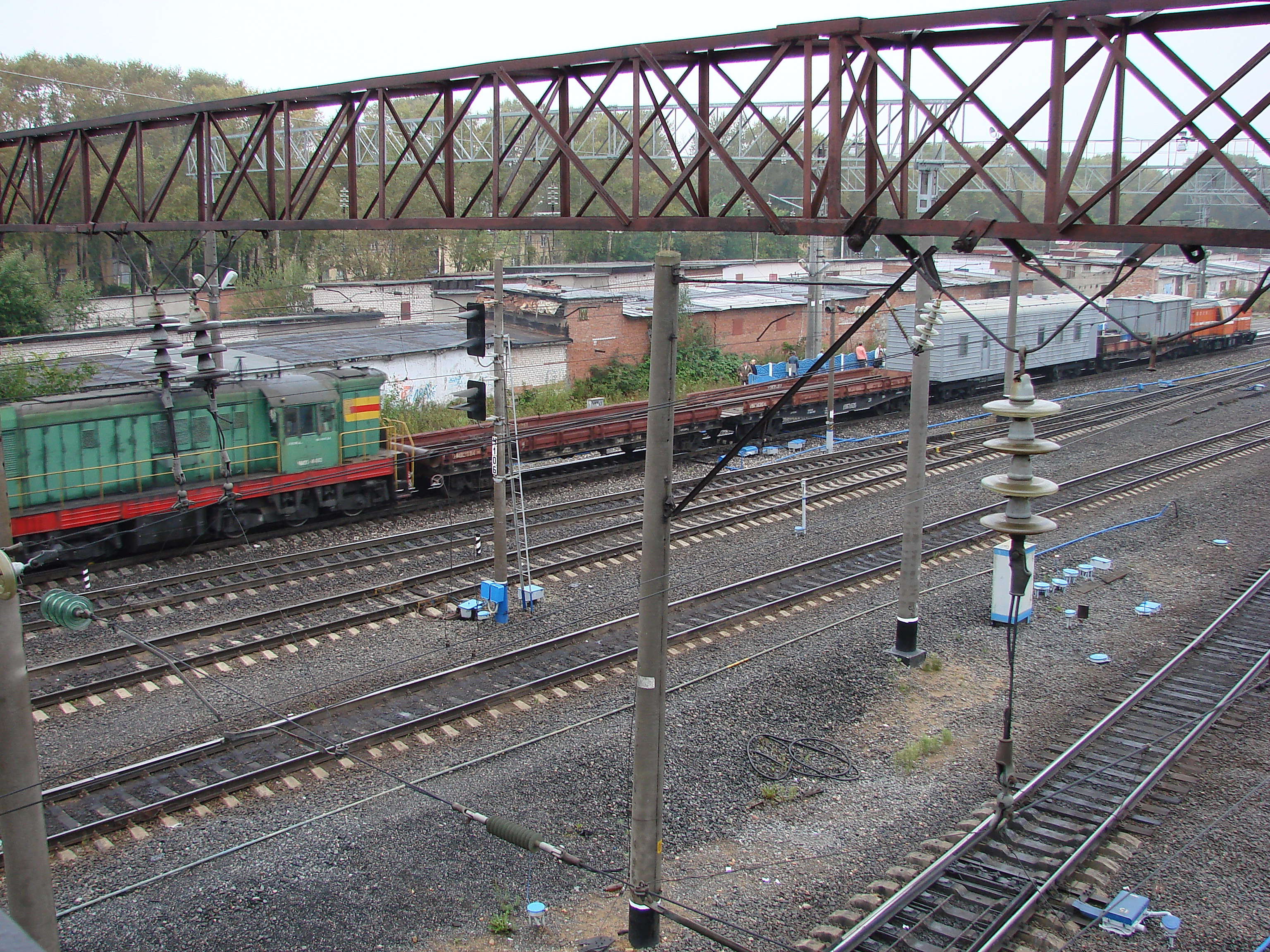 Russian Railways, Rail service train with railwelding machine